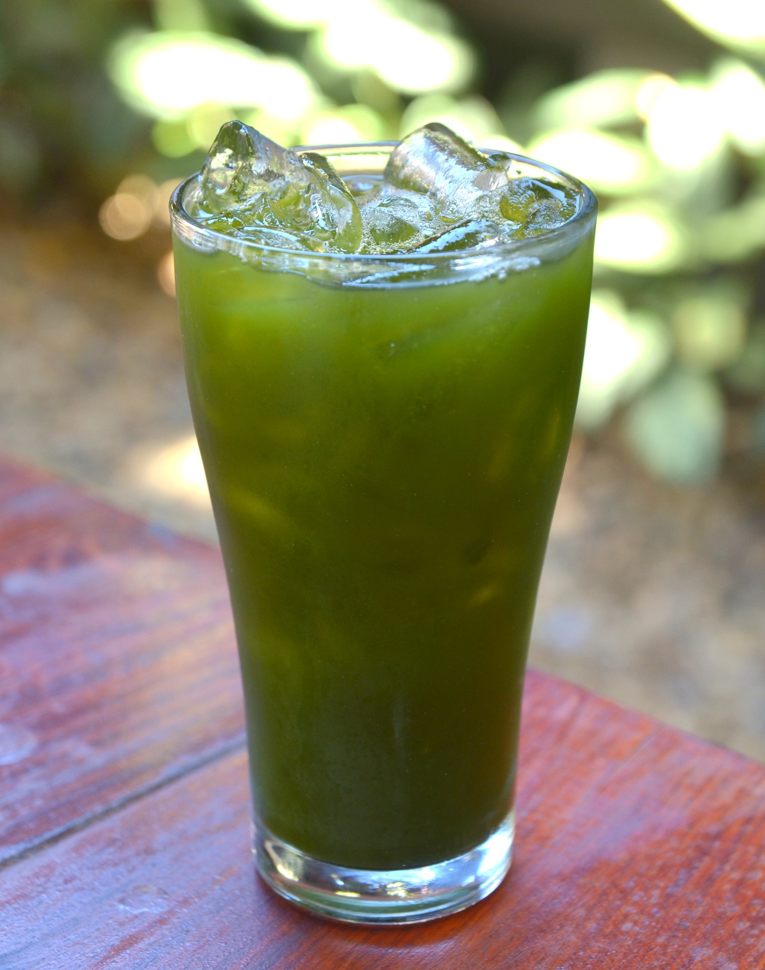 Nam bai bua bok (Thai script: น้ำใบบัวบก) is a refreshing juice made from the leaves of the Asiatic Pennywort (Centella asiatica).